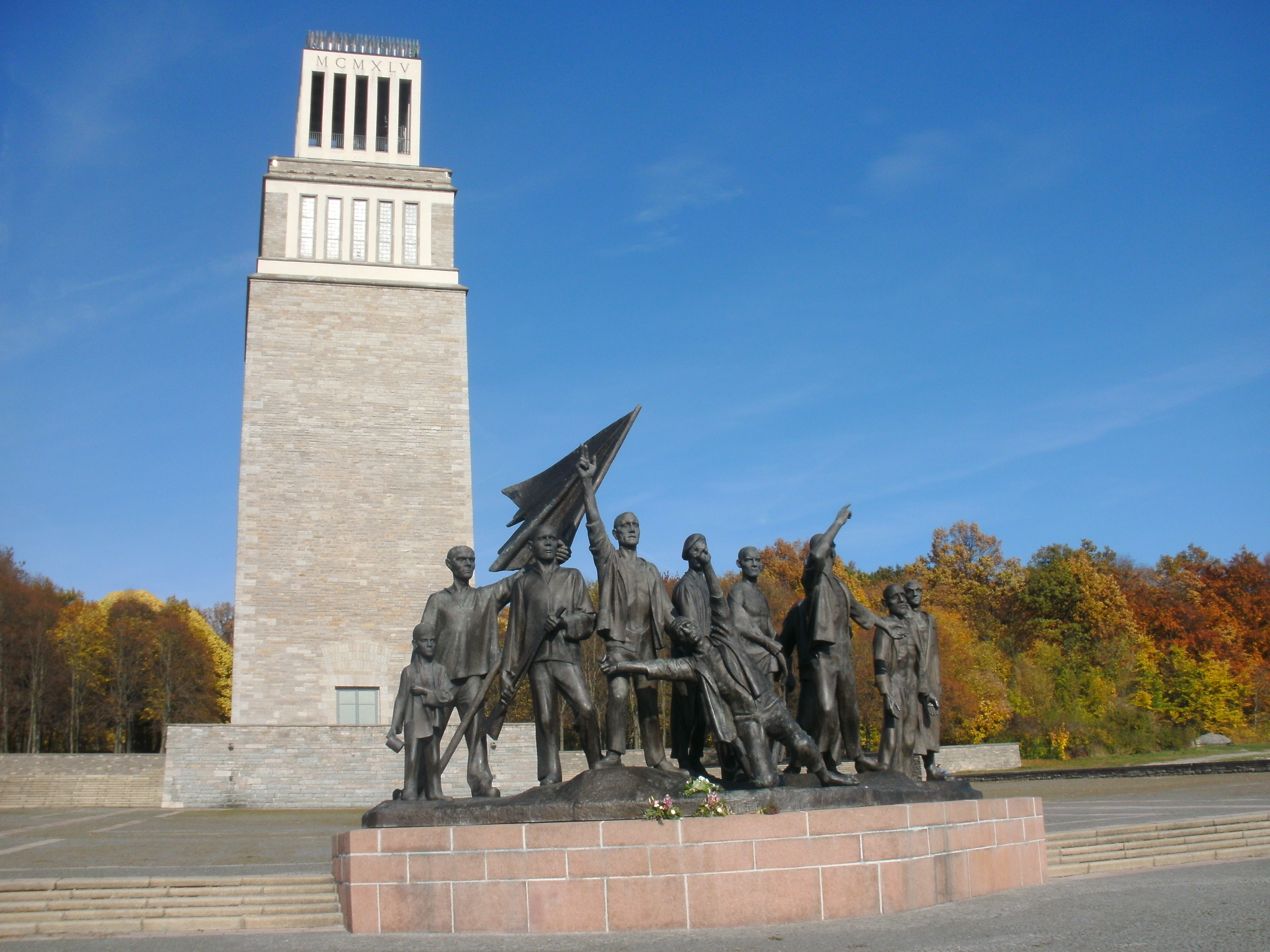 The memorial at Buchenwald, October 2013.